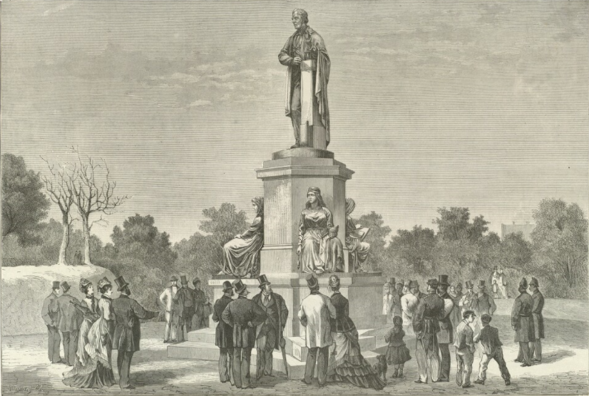 The H. C. Ørsted Monument in Ørstedsparken in Copenhagen, Denmark